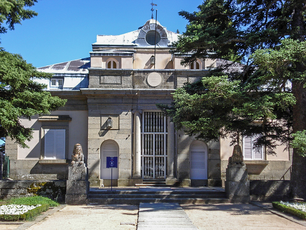 Casita de Arriba, 18th cent. palace in San Lorenzo de El Escorial (Community of Madrid, Spain)